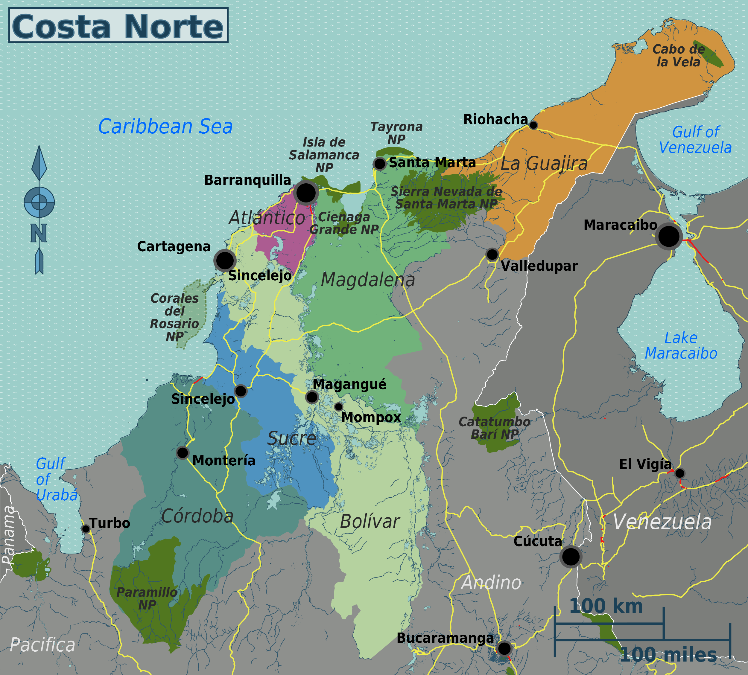 Map of Colombia's Caribbean coast travel regions